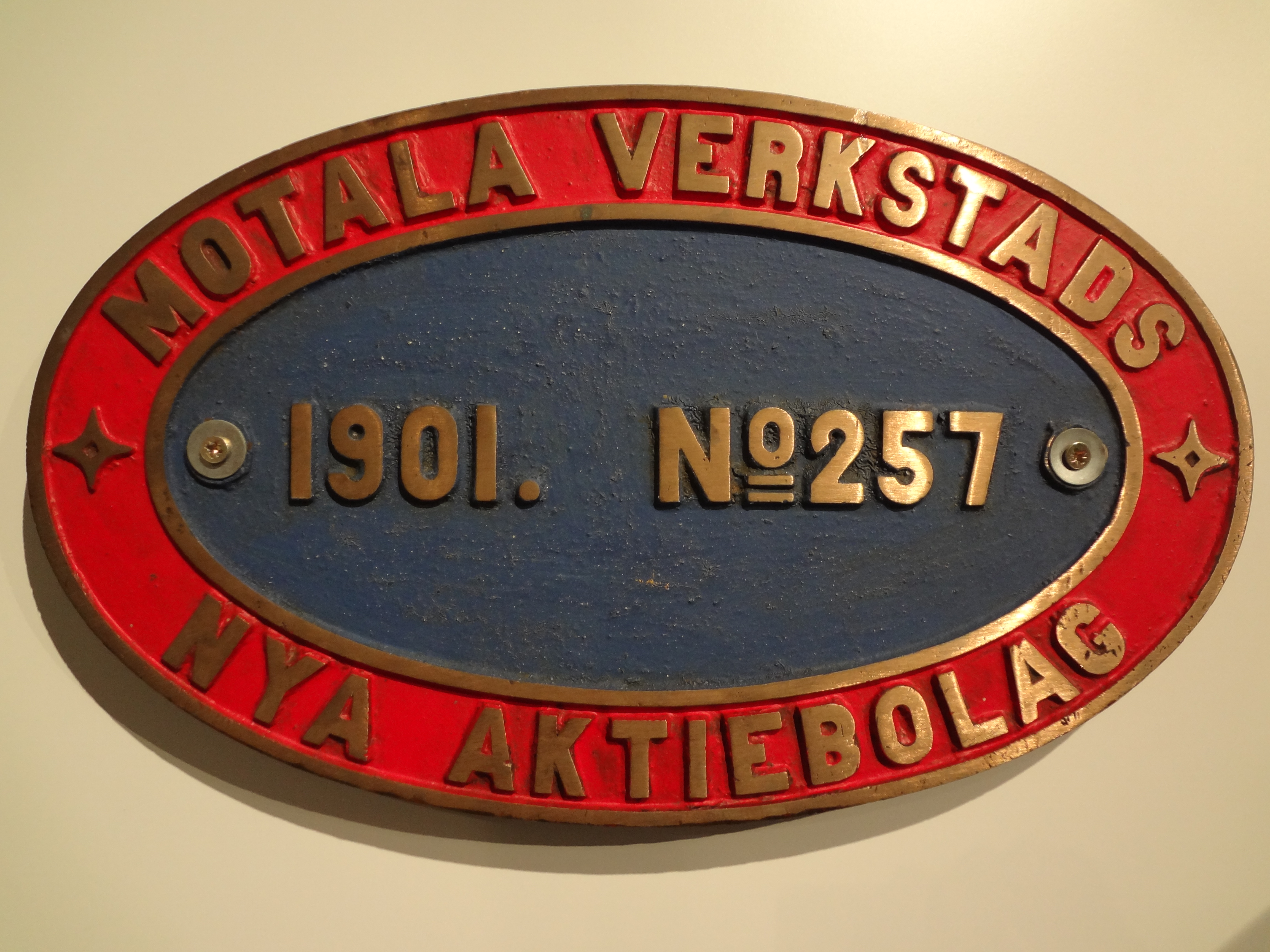 Swedish compay logo for "Motala verkstads nya aktiebolag"